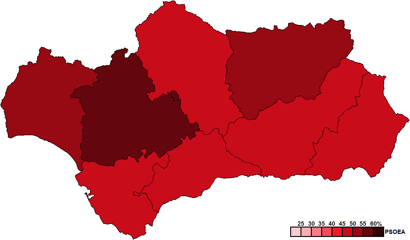 Provincial results for the 2004 Andalusian regional election.